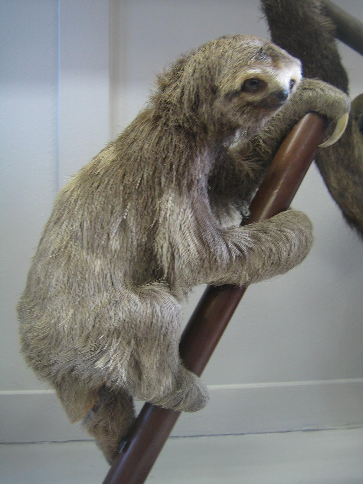 Bradypus variegatus of "Museu de Zoologia" of Barcelona